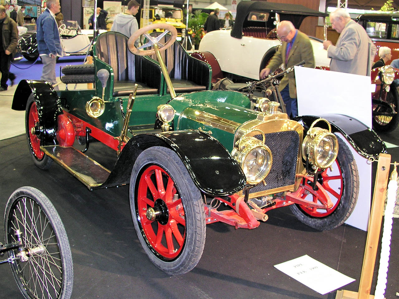 chain driven car with a 4-cylinder 2670 cc engine, made in Belgium by SA Usines Pipe; front-side view